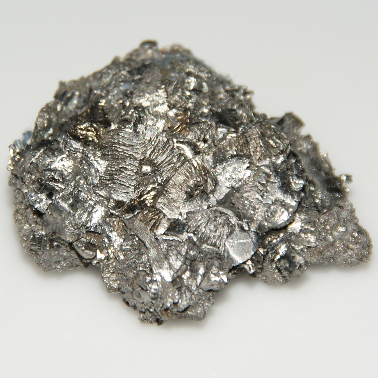 Hafnium and zirconium are two of the elements that are most similar to each other. Therefore they are hard to separate. The silvery, heavy hafnium so far is used only for a few special technical applications. Hafnium carbide (HfC) and tantalum hafnium carbide (Ta4HfC5) are very hard and mechanically enduring, the latter has with more than 4000°C the highest melting point of all materials. After being exposed to air for more than a year, the surface is slightly oxidized and therefore darker and less glossy.